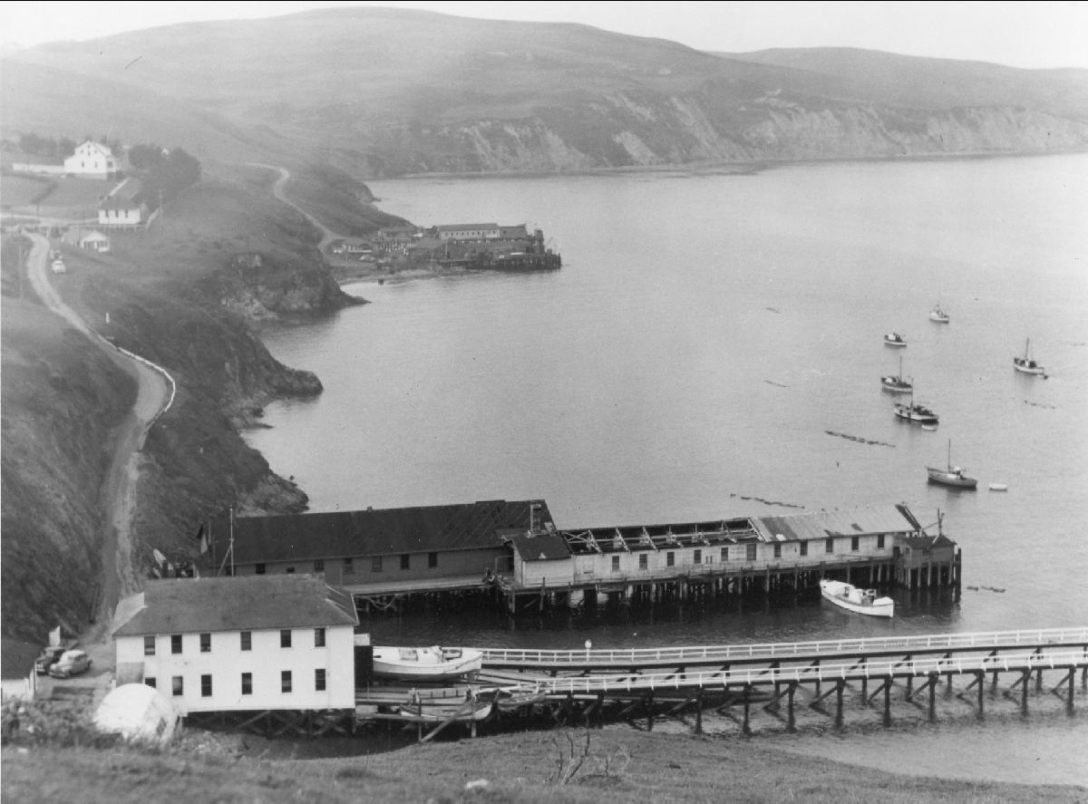 Lifesaving Station at Point Reyes National Seashore. The station from 1927 is situated at Chimney Rock on the southern shore and was designated a National Historic Landmark in 1989. View of the station, looking E-S-E. Note the 36-foot lifeboat on the launchway. Only the white building and the launchway are preserved, the structure behind and the one in the background were removed around the closure of the station in 1968.